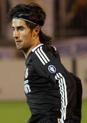 Rubén de la Red against Zenit